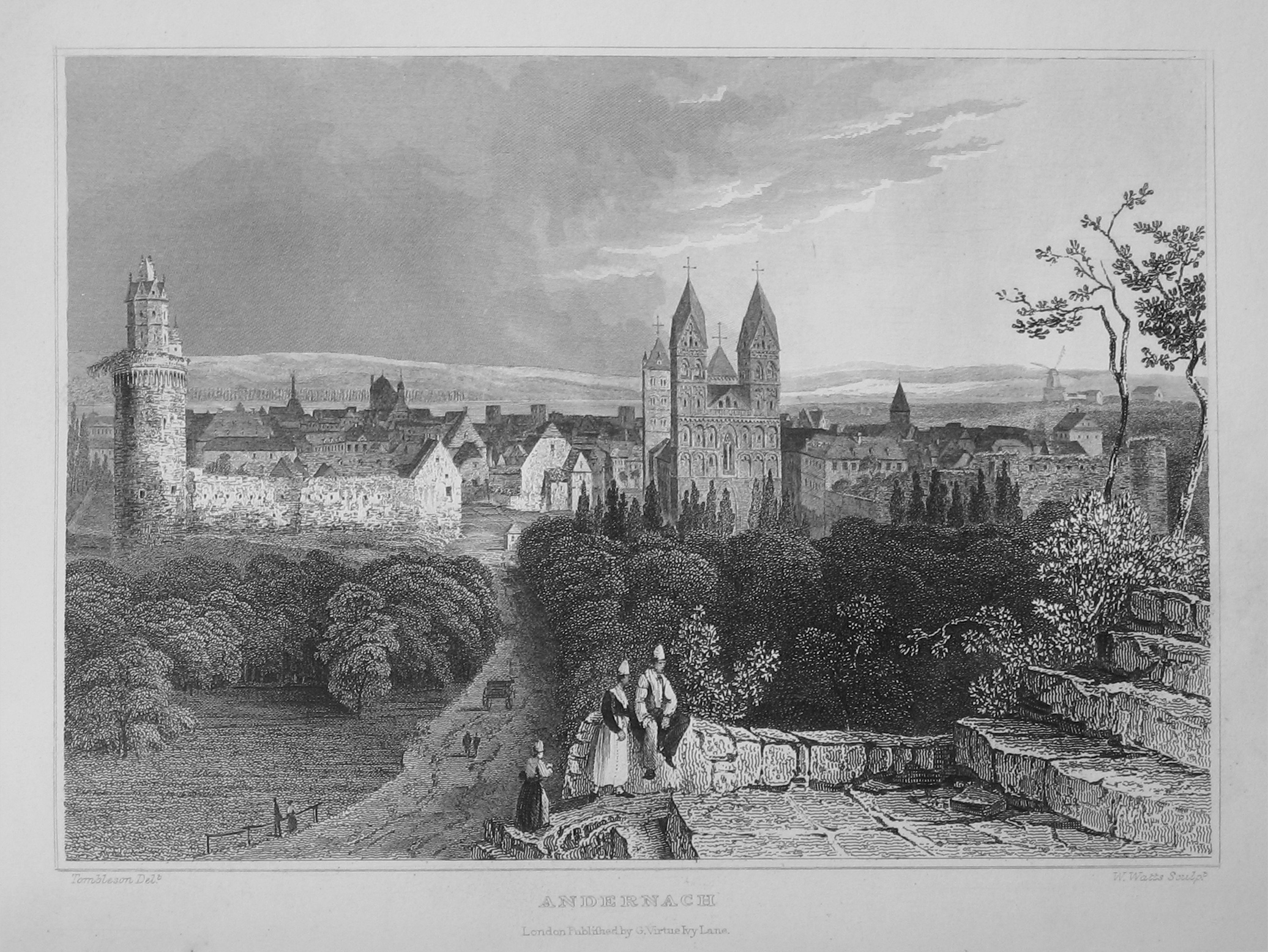 Steel engraving from "Views of the Rhine" by William Tombleson (around 1840): Andernach